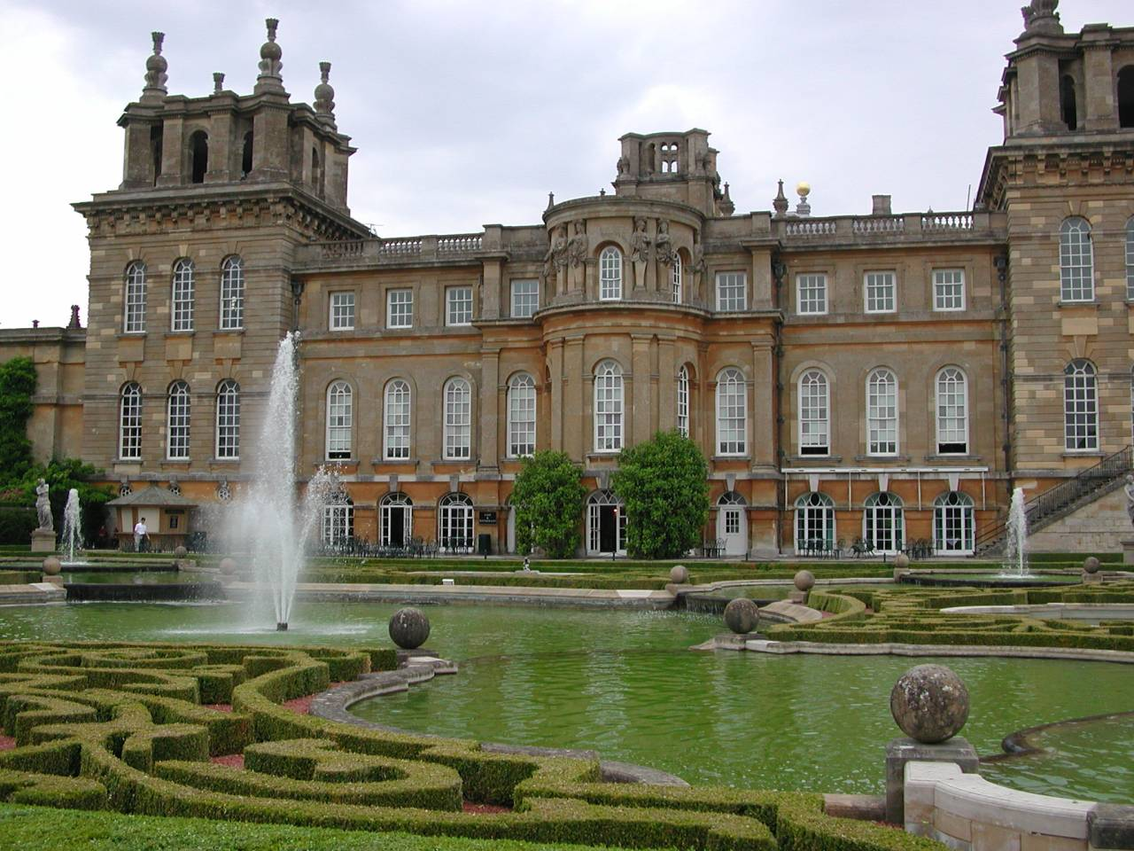 Blenheim Palace